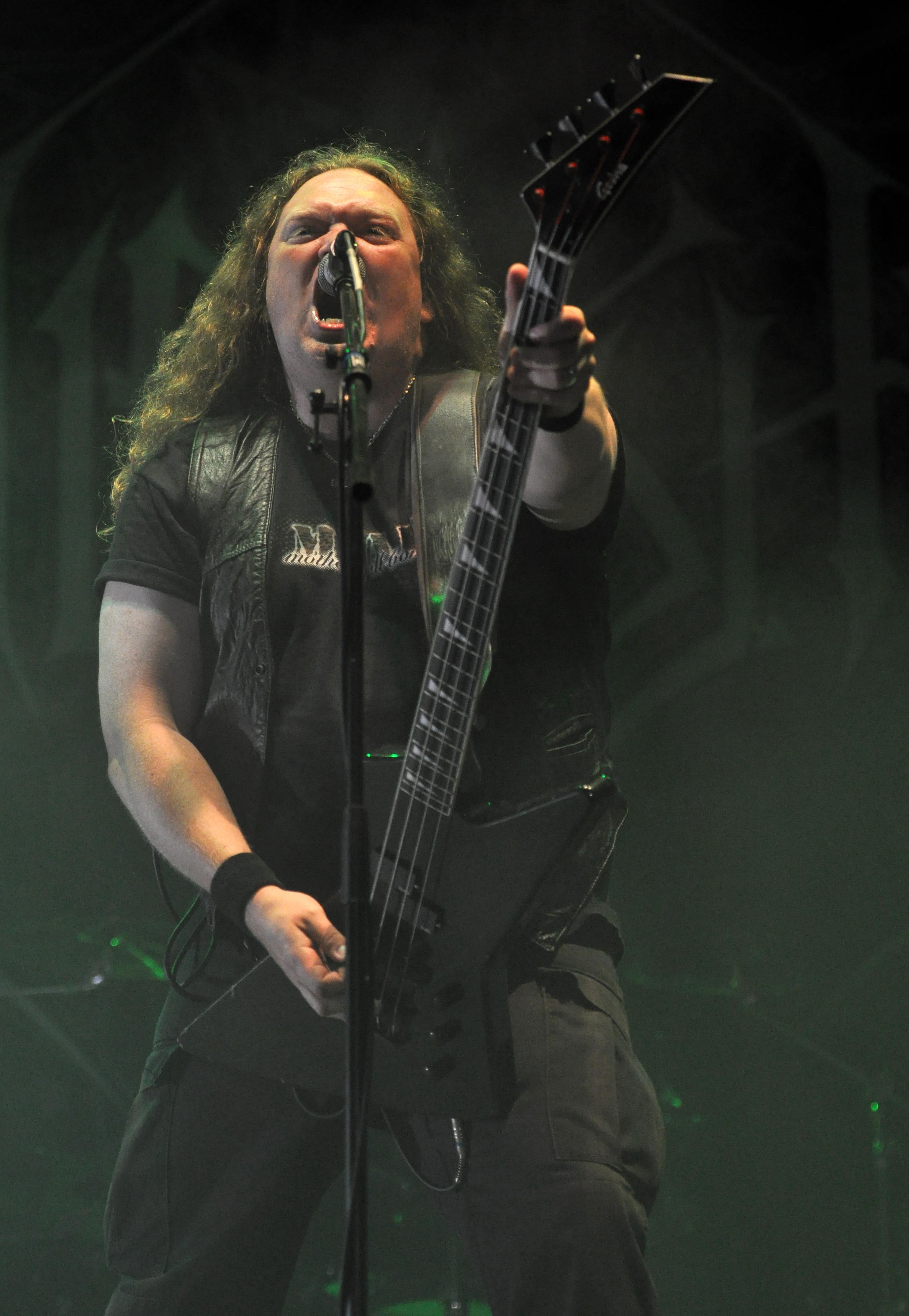 Unleashed at Party.San Metal Open Air 2013